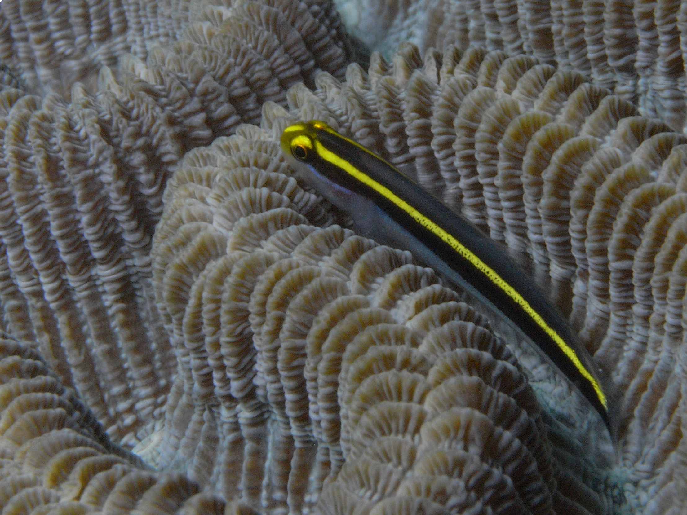 Elacatinus randalli on stony coral